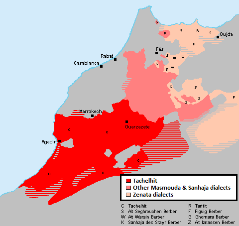 Language areas in Morocco - Tachelhit